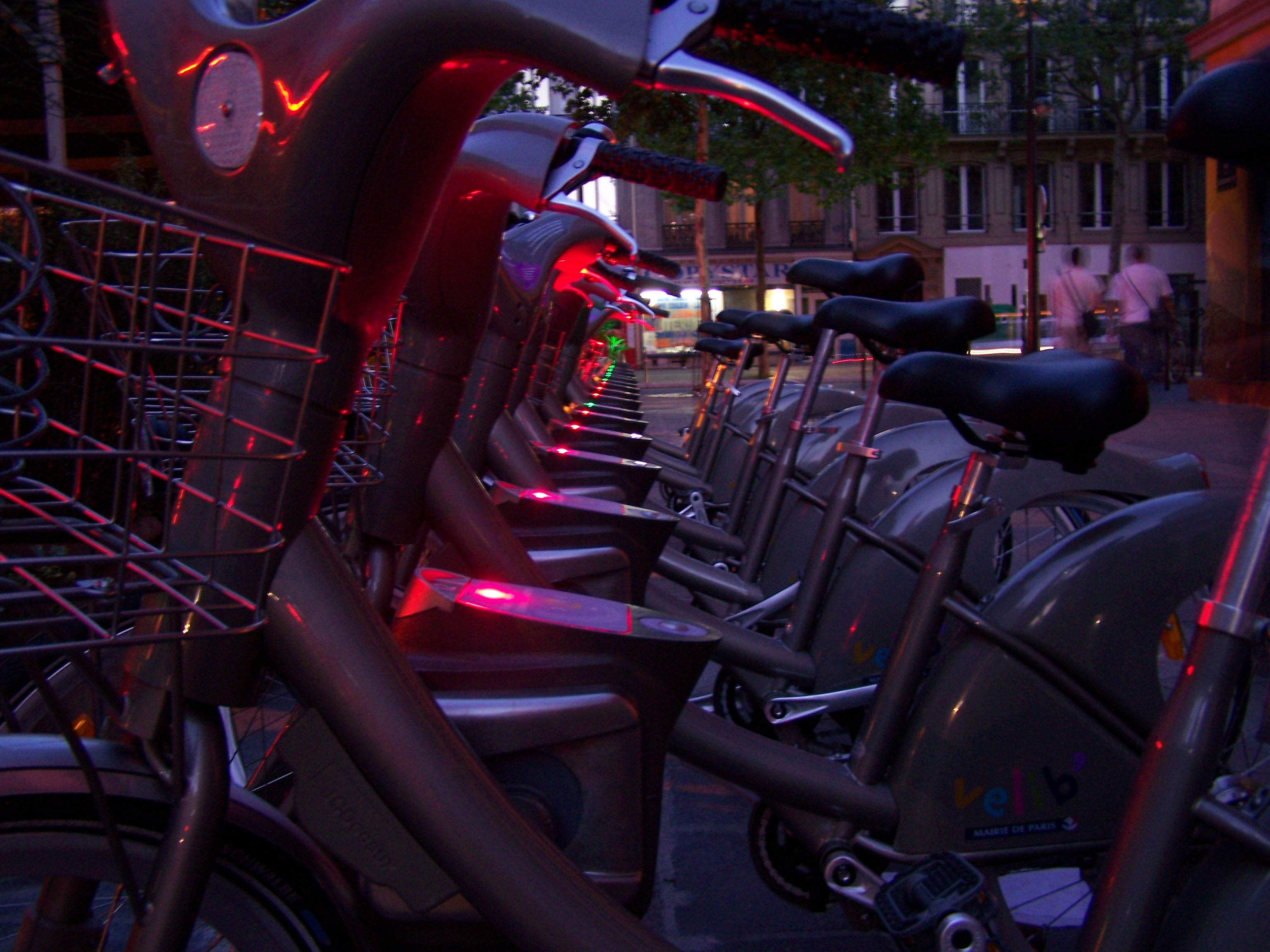 Velib-bicycles in the dark near Chatelet-les halles (Station n° 1005 3 Rue de la Cossonerie)